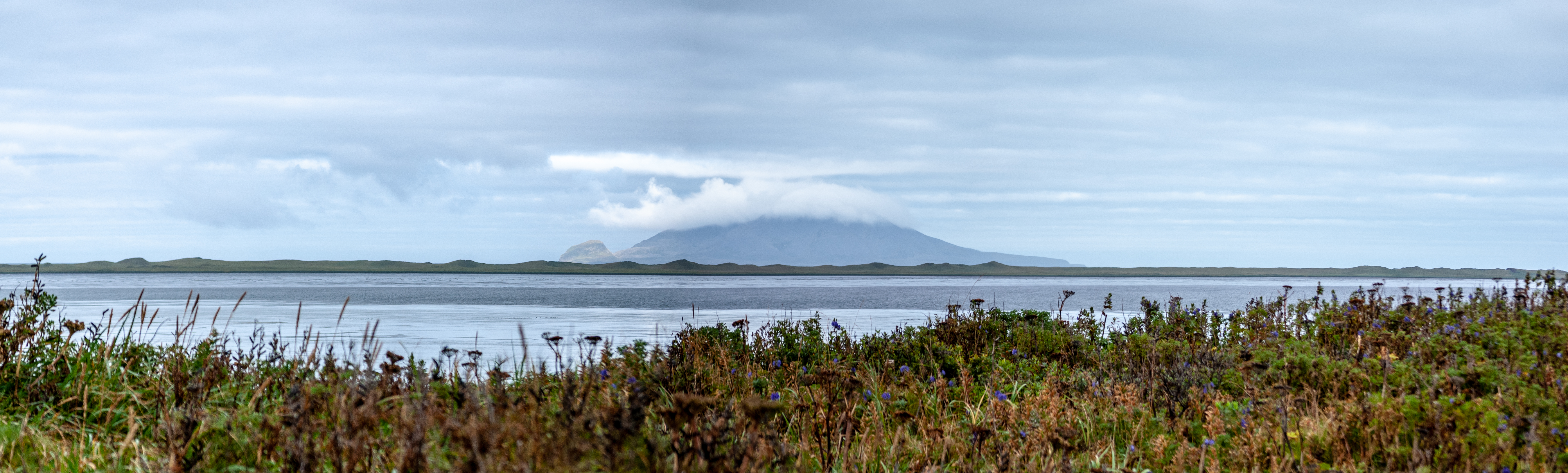 View of Amak Island Volcano with Grant Island in front of it, as seen from Grant’s Point Observatory at the Izembek National Wildlife Refuge on September 9, 2018.